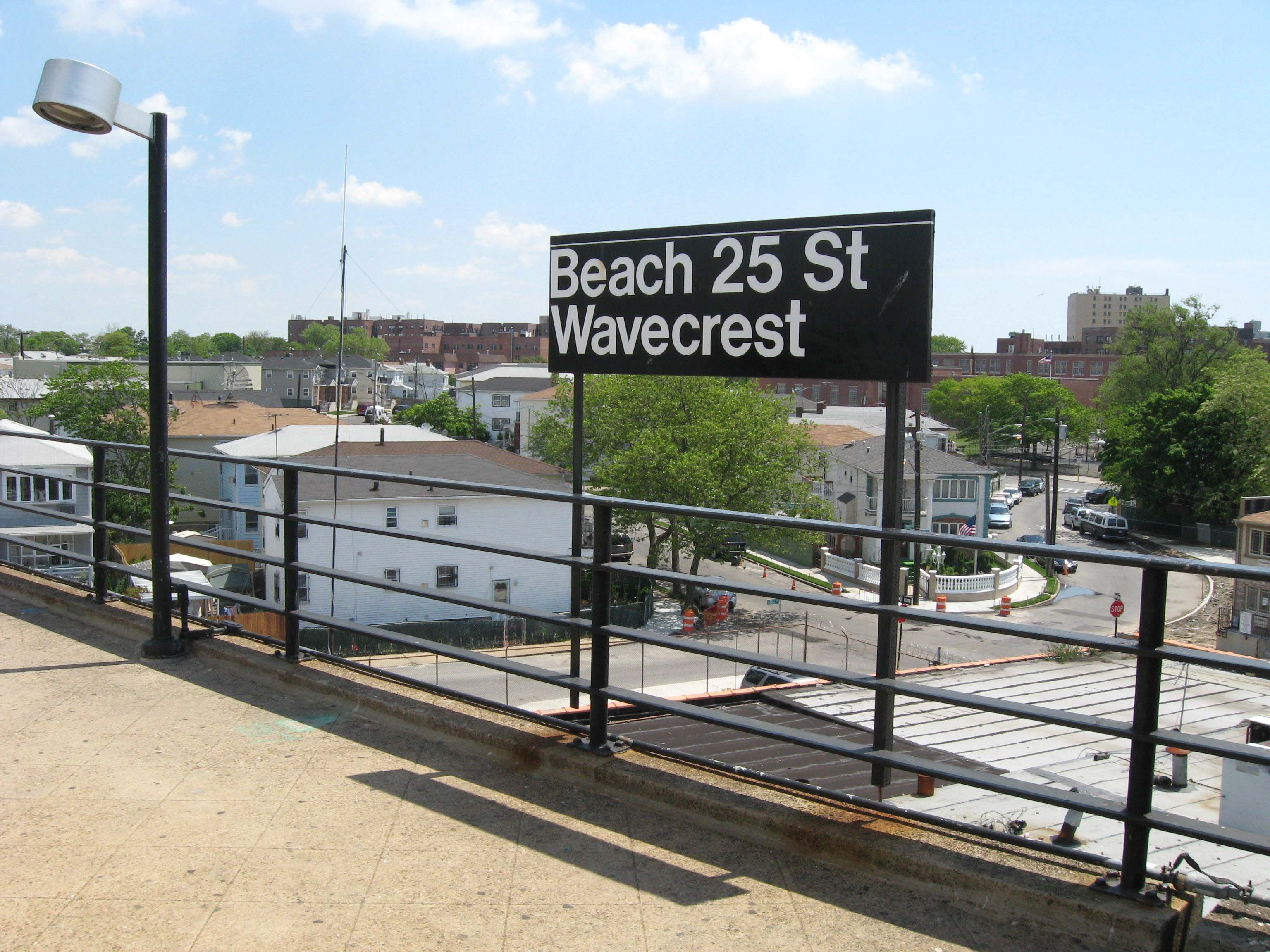 Looking east out door of train stopped at Beach 25th Street (IND Rockaway Line), and along Aztec Place on a sunny midday.